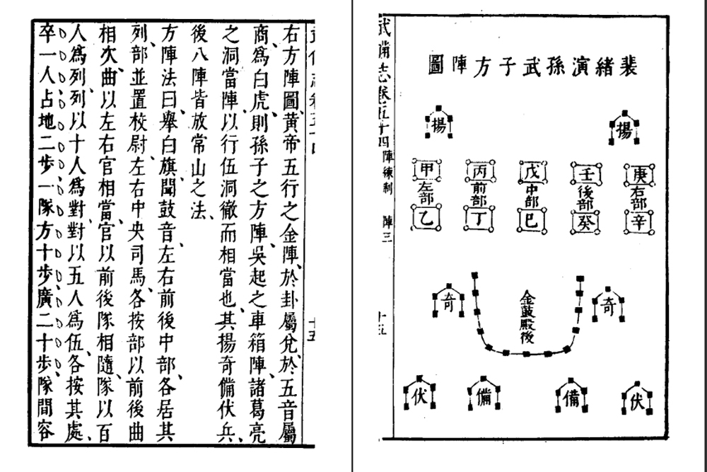 Diagram of Sun Zi troop formation in Wubei Zhi